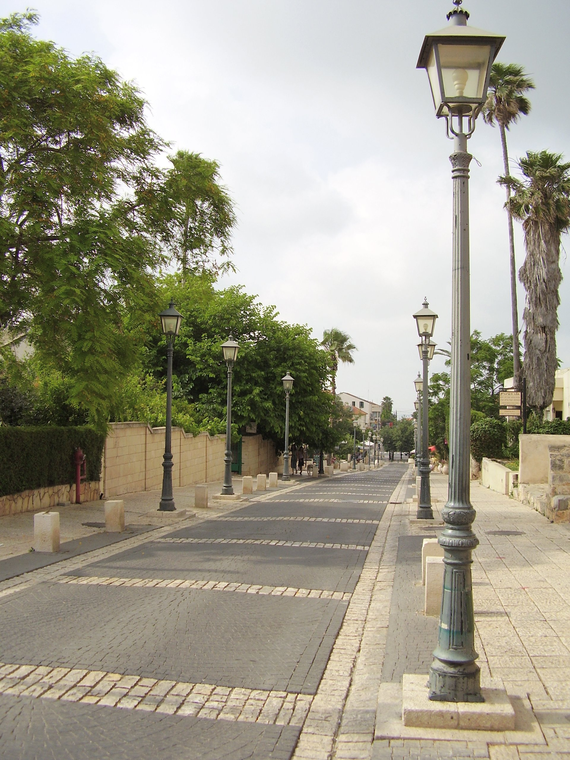 HaMeyasdim st. pedestrian mall, Zichron Yaacov, Israel; facing north